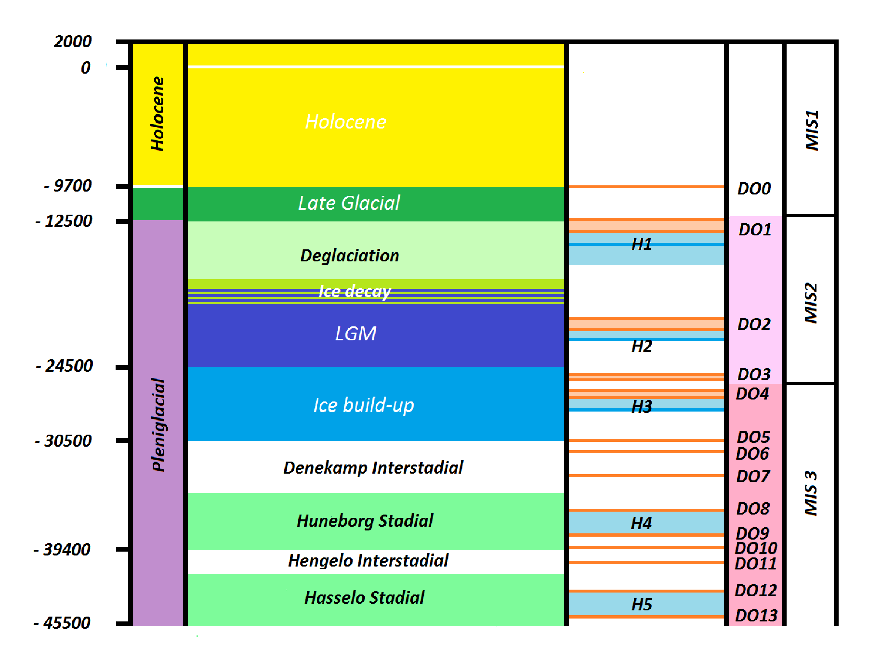 Chart showing the Holocene and the Pleniglacial down to the beginning of the Hasselo Stadial (45.500 BCE). Heinrich events H1 to H5 are marked in blue, Dansgaard-Oeschger events DO0 to DO13 in orange-red. LGM: Last Glacial Maximum, MIS: Marine Isotope Stage